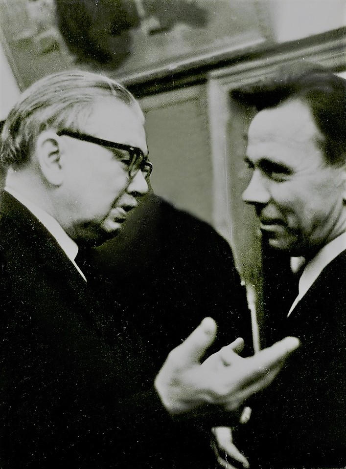 Владимир Крылов беседует с Леонидом Леоновым